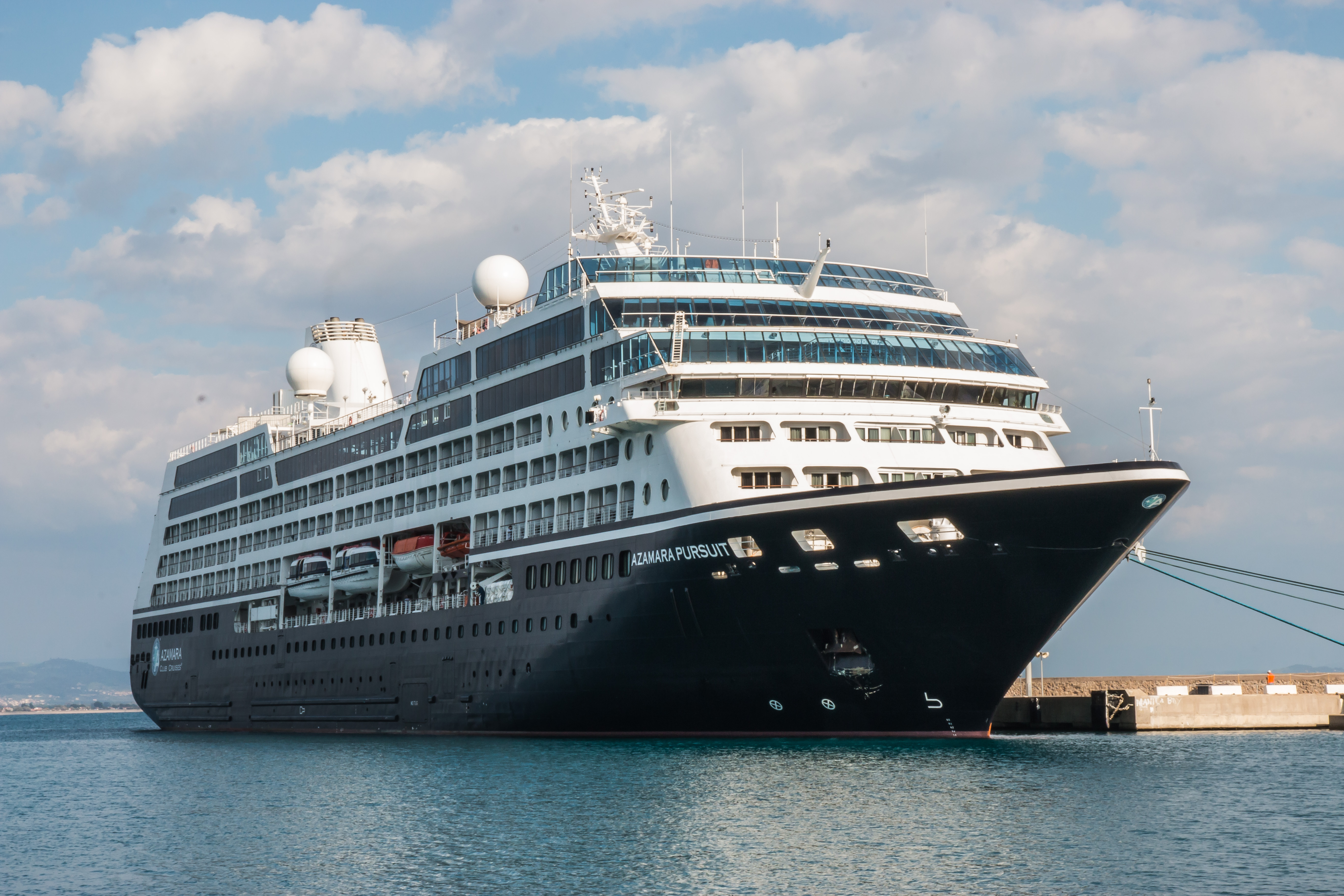 Titan Travel Italian Lakes and Azamara Pursuit Greek Islands Cruise trip October 2018